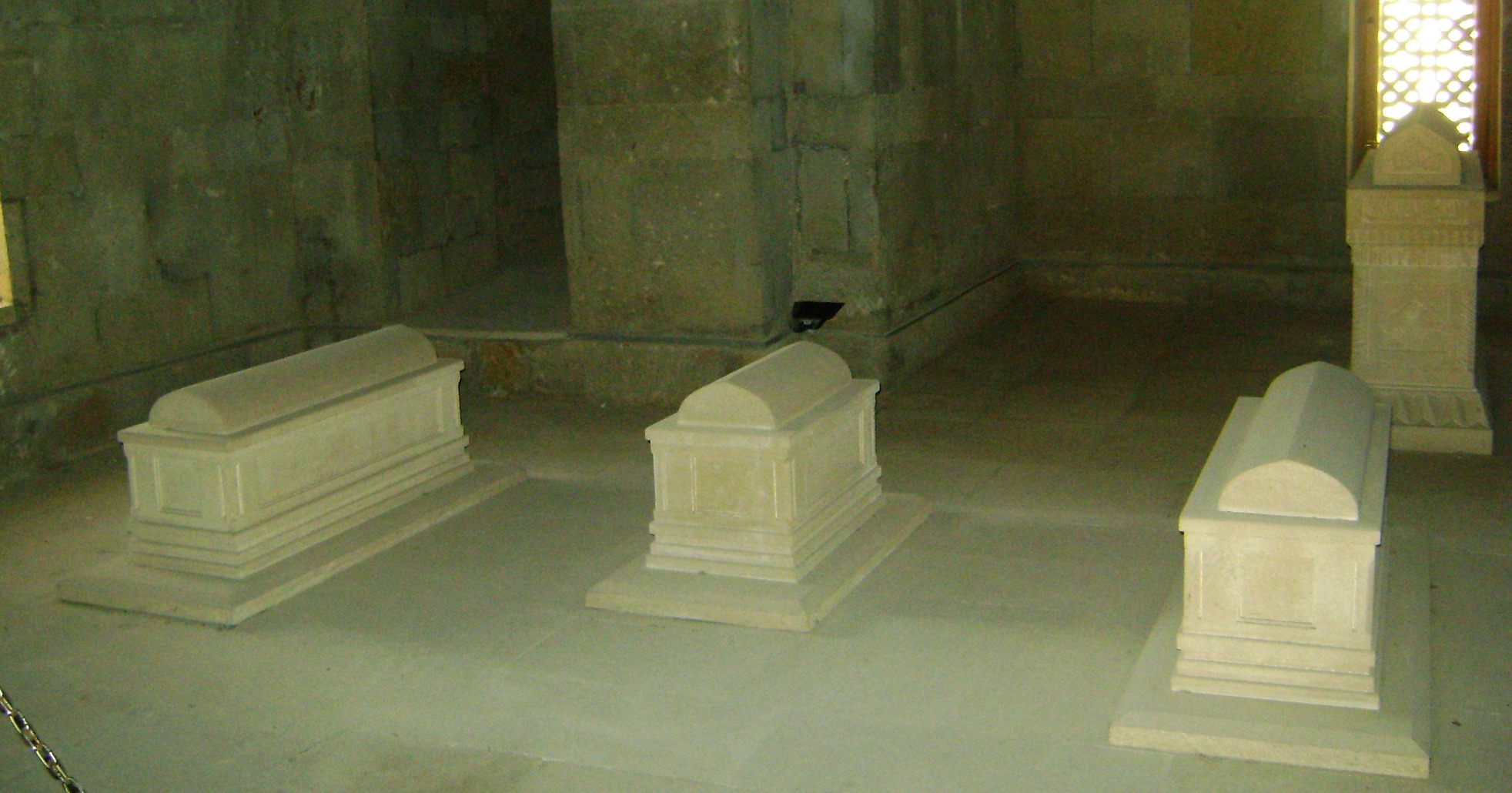 shirvanshakh_palace_old_city(baku)_azerbaijan_8-18centuries - tomb_buriat_vault_shirvanshahs_and_baku_khans